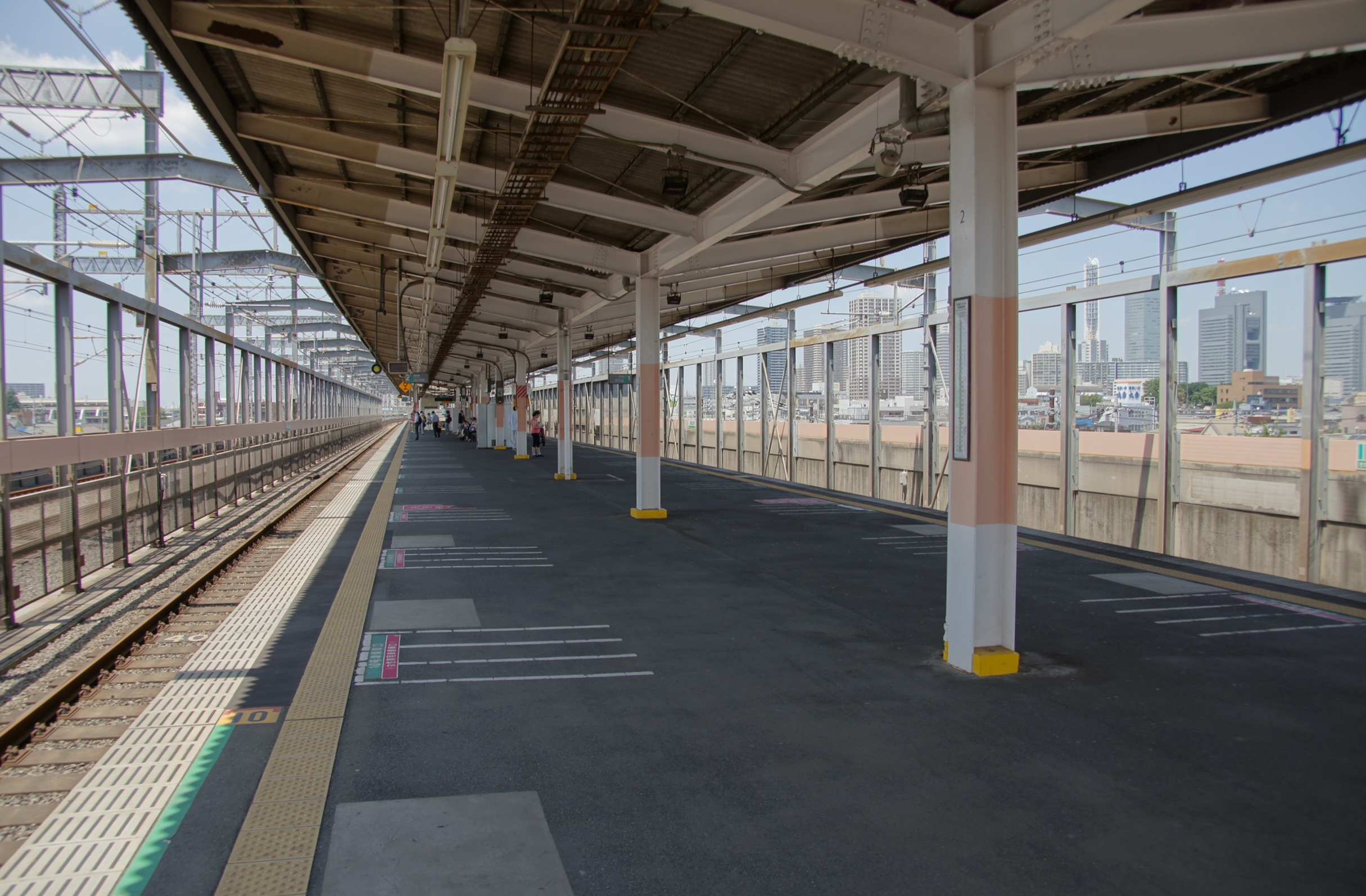 View from the south end of the platform at Yono-Hommachi Station on the Saikyo Line